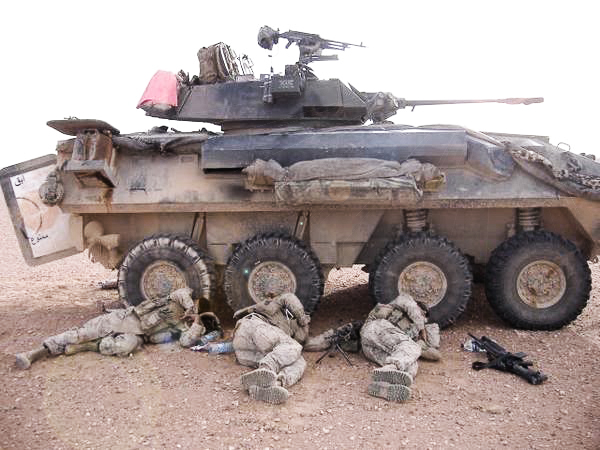 3rd LAR Marines Napping During Operation Iraqi Freedom 05-07